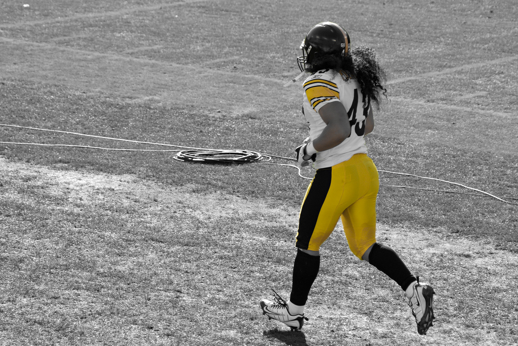 Troy Polamalu of the Pittsburgh Steelers|Pittsburgh Steelers prior to a 2008 game.